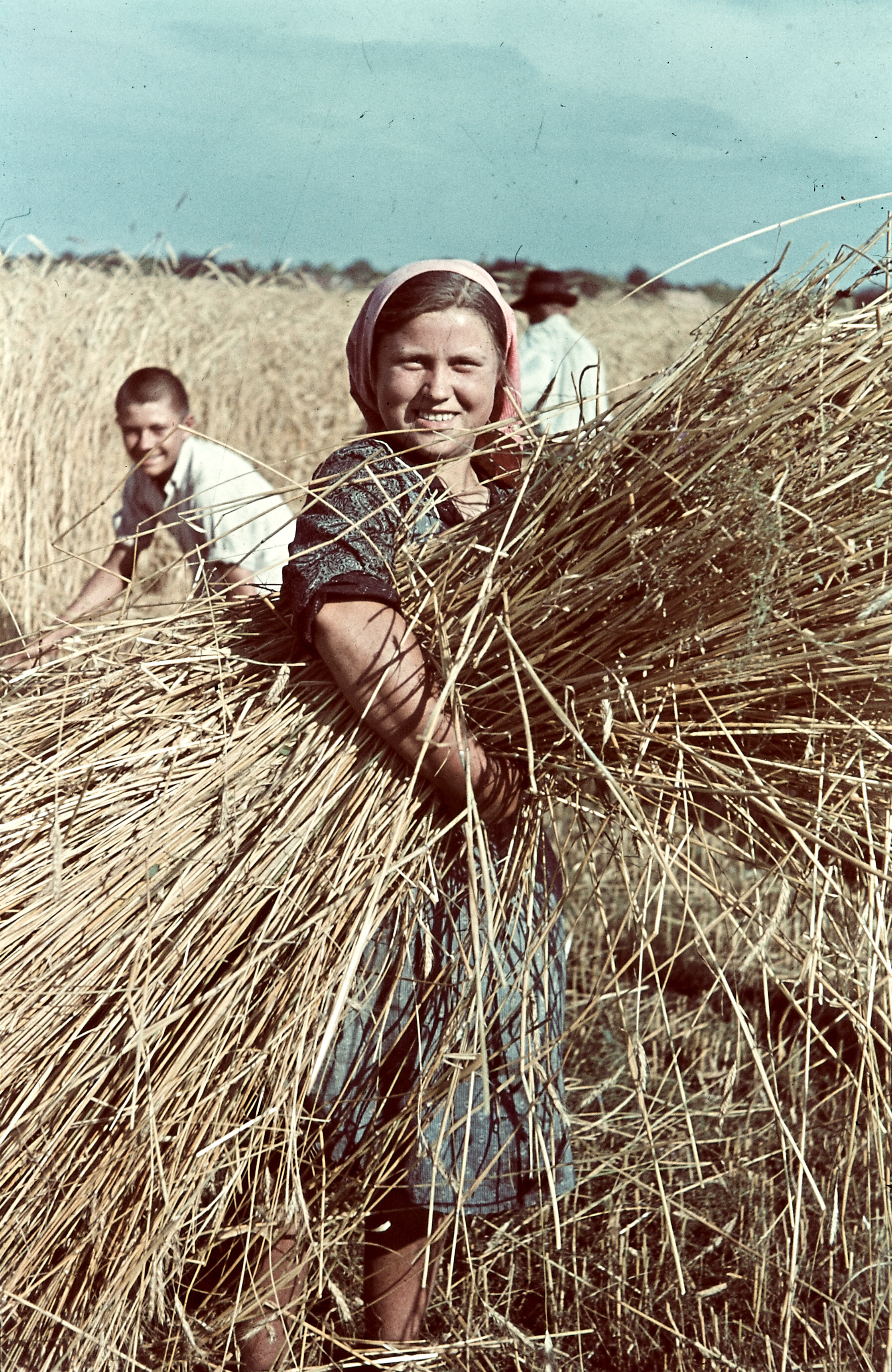 People of Hungary Tags: agriculture, colorful, harvest